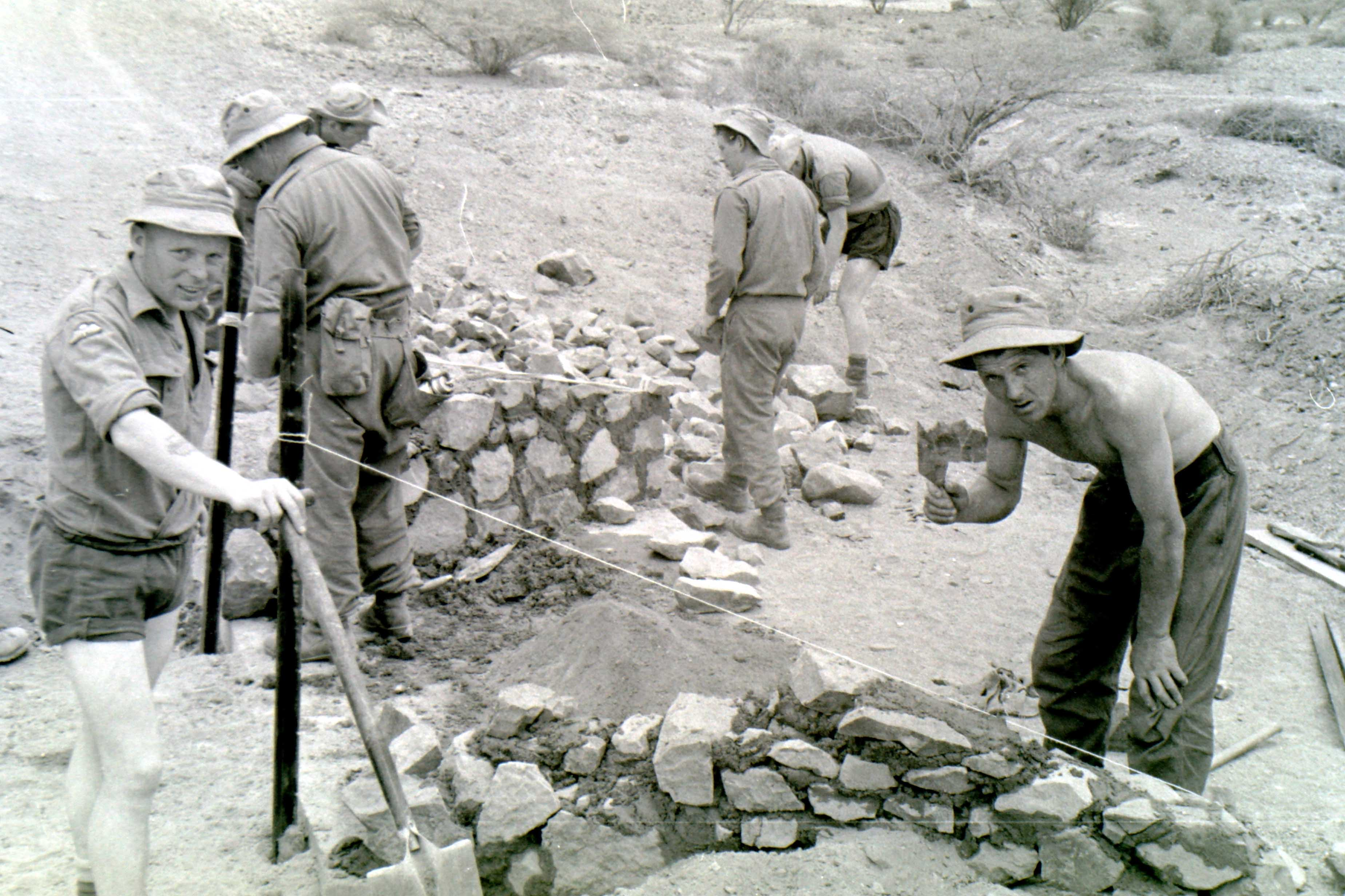 Culvert construction on the Dhala Road by Territorial Army Sappers of 131 Parachute Engineer Regiment in April 1965. The culverts are being built to prevent the newly-blacktopped road being damaged or washed away by flash-floods. These Scottish sappers are from 300 Parachute Field Squadron.